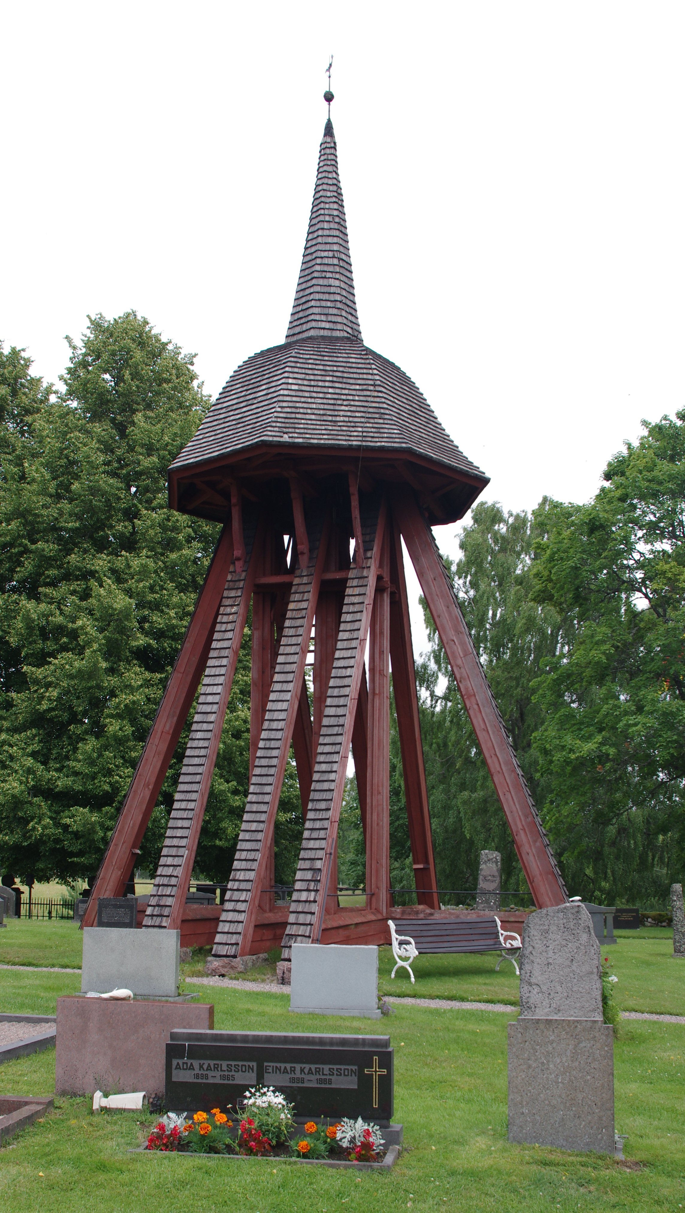 Utvängstorps kyrka (swedish: church of Utvängstorp), Västergötland, Sweden.